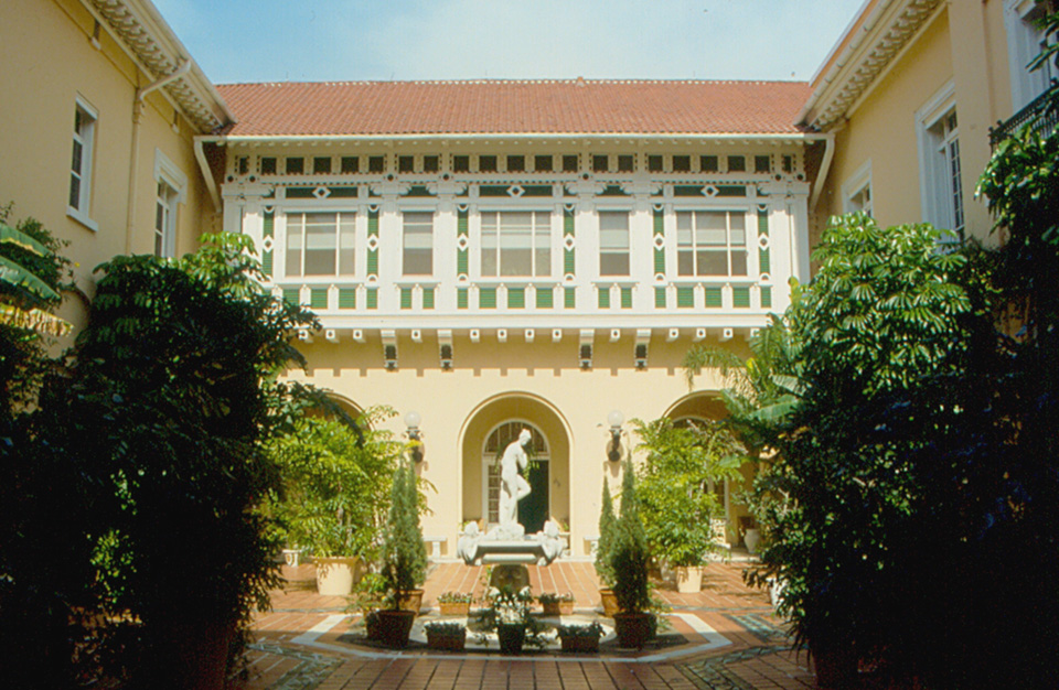 The garden courtyard of Whitehall — Palm Beach, Florida. A 55-room mansion in Palm Beach, Florida, built by Henry Flagler in 1900-1902. Present day museum.